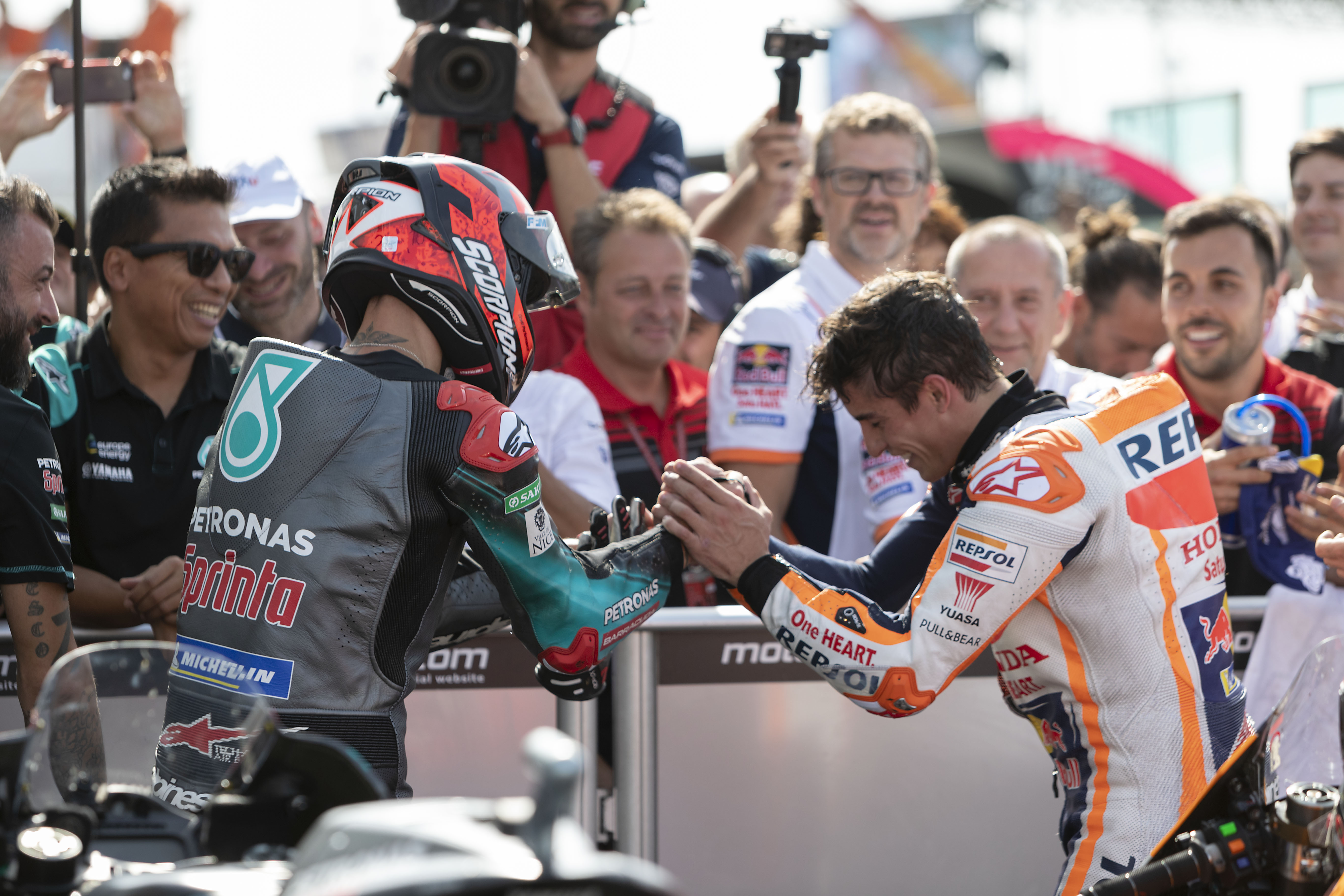 Fabio Quartararo and Marc Márquez, congratulating each other at parc fermé after finishing in second and first place at the 2019 San Marino and Rimini's Coast Grand Prix.